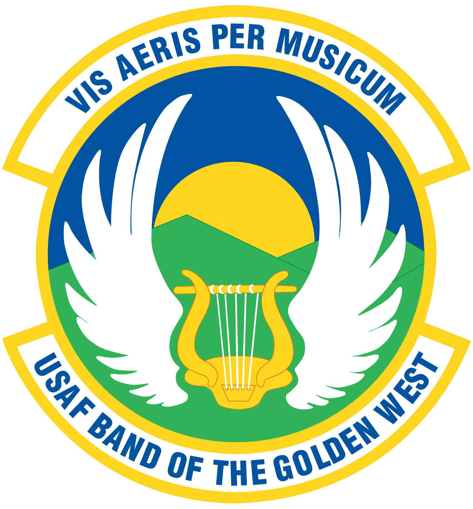 USAF Band of the Golden West emblem